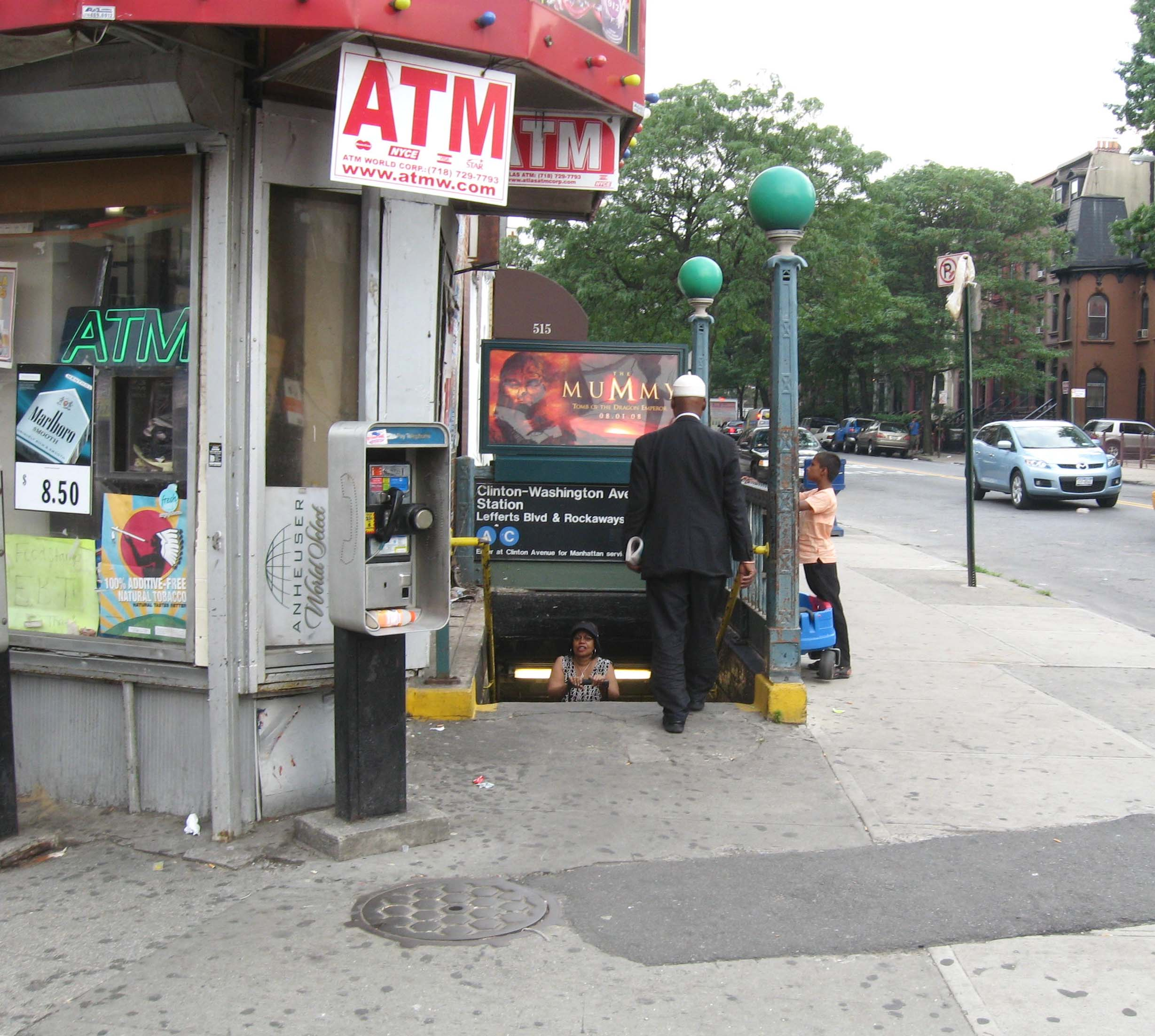 Clinton–Washington Avenues (IND Fulton Street Line) on a partly cloudy afternoon. See also File:Clinton Wash Av ind wb plat jeh.JPG.